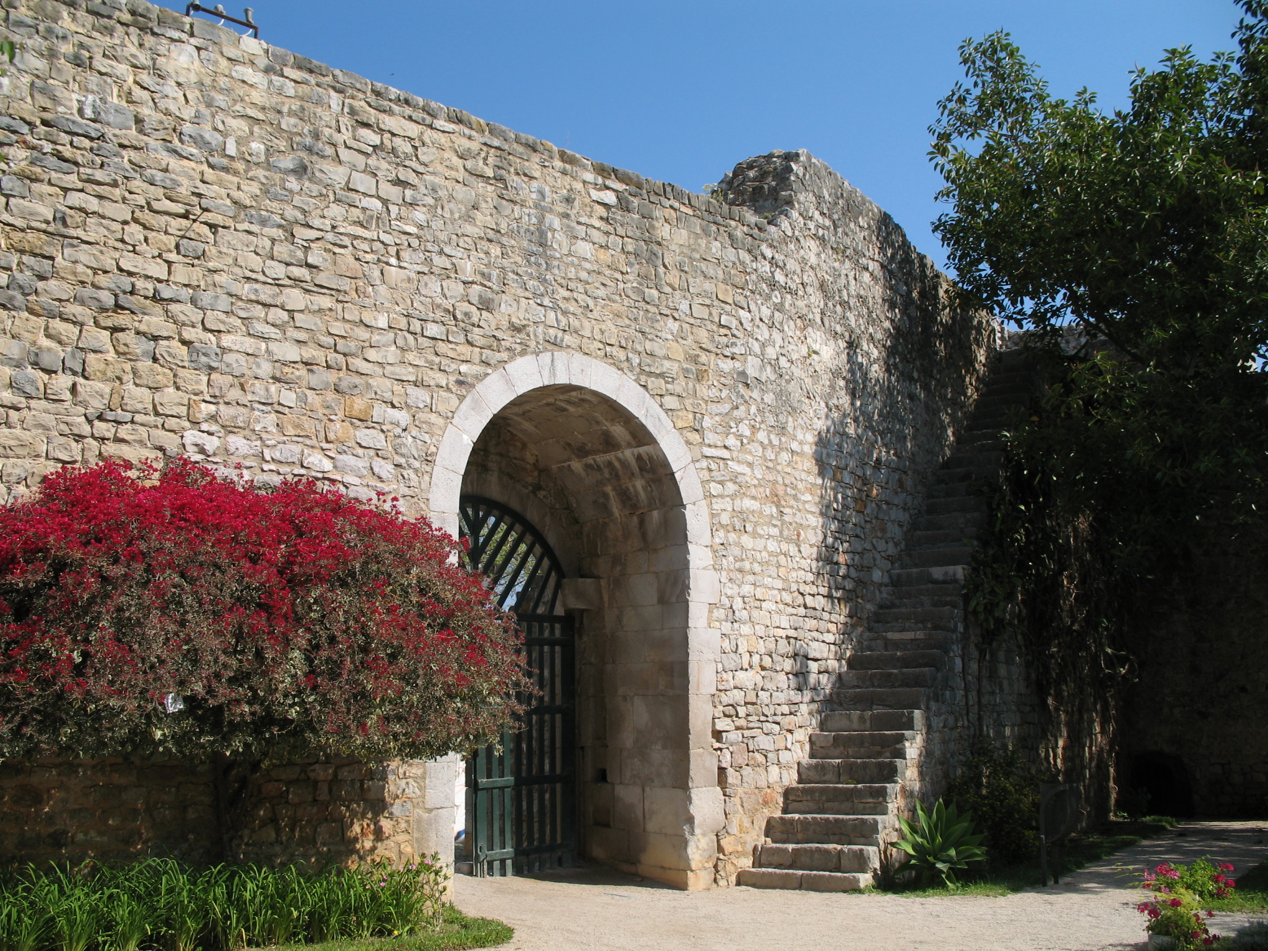 Tavira (Algarve, Portugal): the old castle